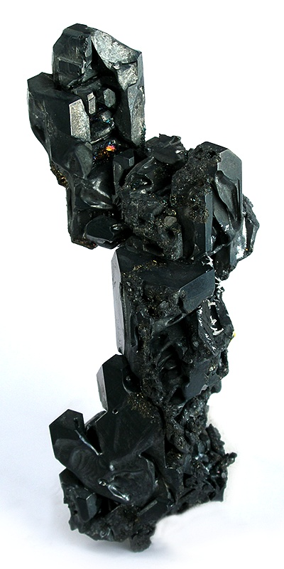 Acanthite Locality: San Juan de Rayas Mine (Rayas Mine; Reyes Mine), Guanajuato, Municipio de Guanajuato, Guanajuato, Mexico (Locality at ) Size: small cabinet, 9 x 3.5 x 3.5 cm Acanthite A superb, freestanding acanthite cluster with high lustre and incredibly fine crystallization. This was regarded as the #2 or #3 acanthite in the collection, depending on personal tastes, only because Romero also had the famous larger specimen. For anybody else, it would have been their insurmountable, #1 piece. And in any case, this specimen exhibits more textbook form, for the species, in an unusually elegant cluster. It is, by any standard, a outstanding for the species and locale, of the highest level. This specimen from the Dr Miguel Romero collection was on loan exhibition to the University of Arizona Museum for over a decade, until my purchase of this collection in 2008. It was on display in special cases at the museum, and has since been featured in the book "The Miguel Romero Collection of Mexico Minerals" which we sponsored as a special supplement book (published by the Mineralogical Record in December of 2008).